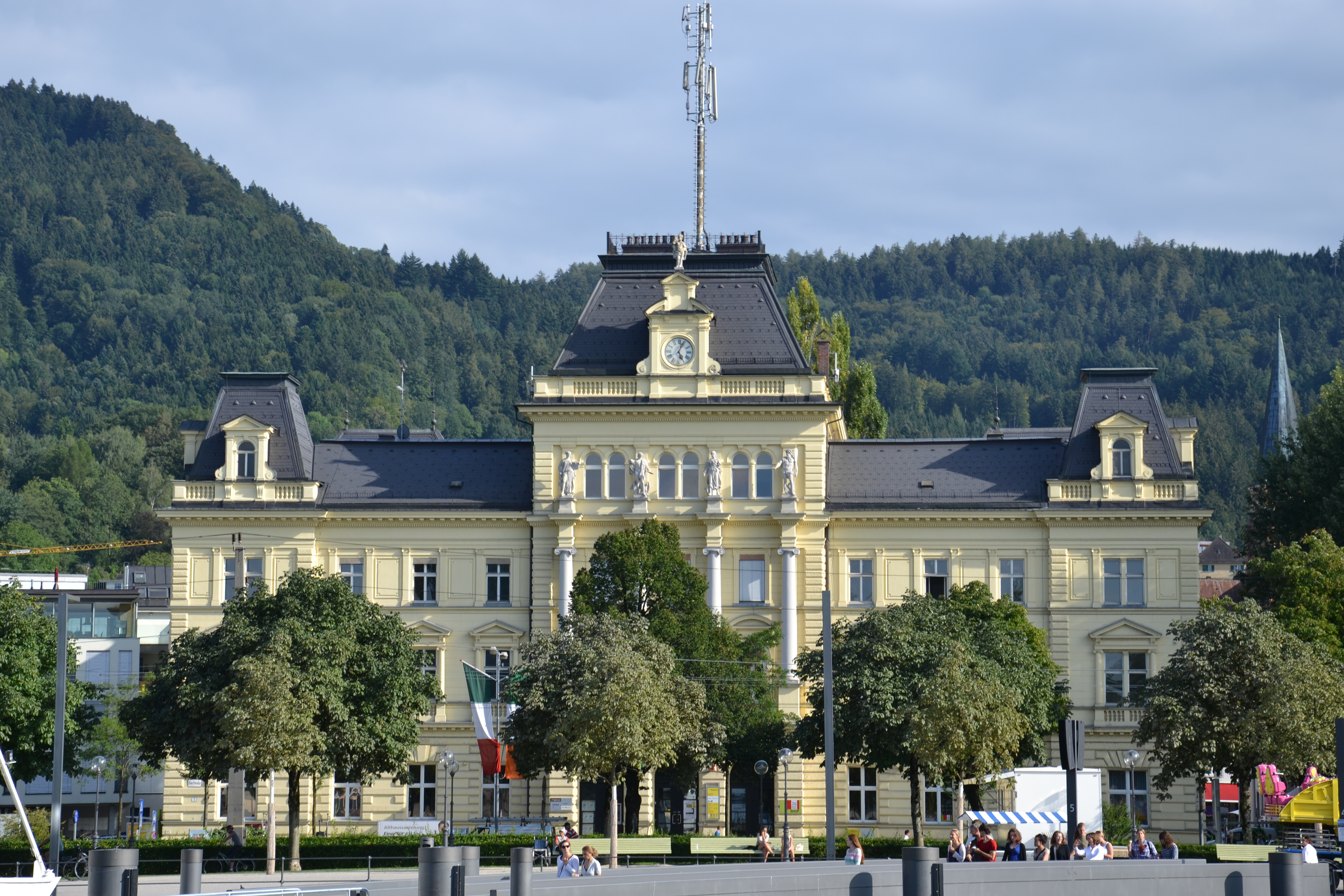 Main post office of the austrian city of Bregenz.